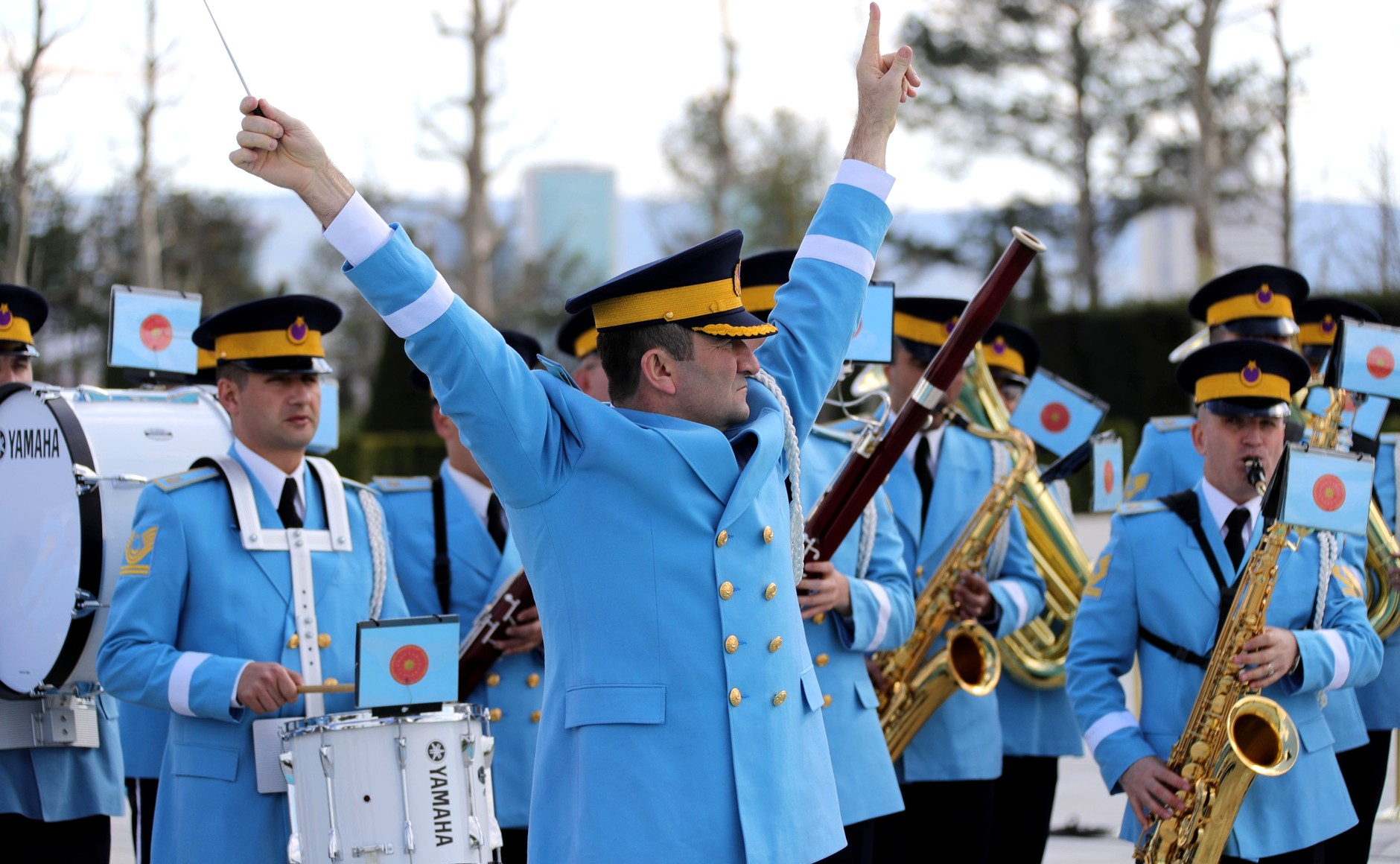 The President of Russia arrived in Ankara on a working visit at the invitation of President of Turkey Recep Tayyip Erdogan.